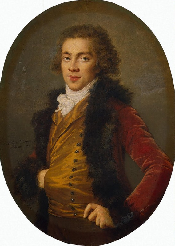 Vigee Le Brun Elisabeth-Louise - Portrait of Baron Grigory Strogsnov